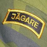 Shoulder Sleeve Insignia